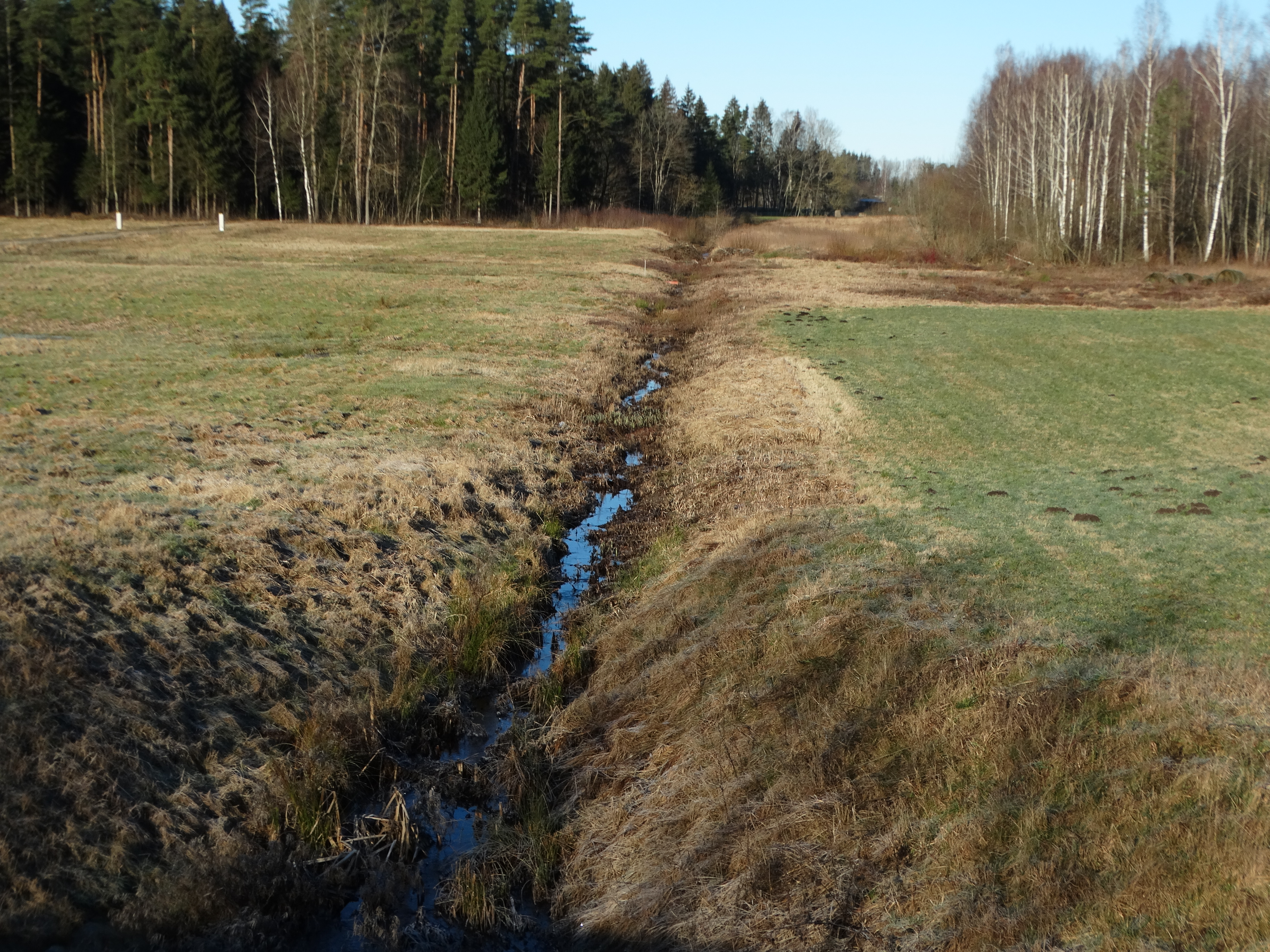 Sruojelė stream, Noriškiai, Plungė district, Lithuania